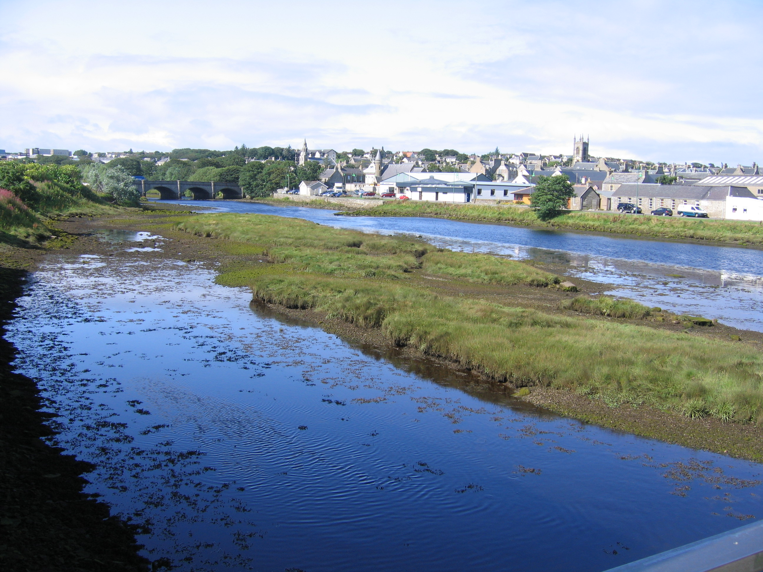 Thurso: River Thurso - Thurso - Road Bridge